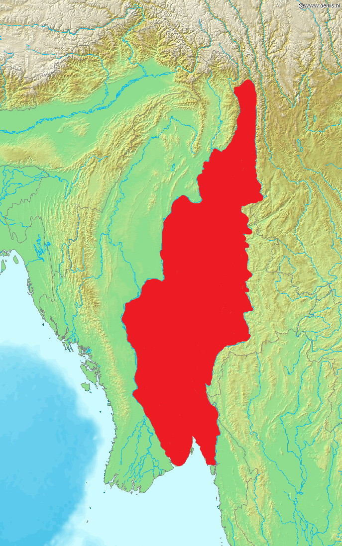 Distribution, Hoolock tianxing